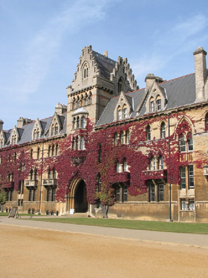 Meadow Building, Christ Church, Oxford University, England. copyright Richard Gallagher. Permission is granted to copy, distribute and/or modify under the GFDL, version 1.2 any later version published by the Free Software Foundation; with no Invariant Sections, with no Front-Cover Texts, and with no Back-Cover Texts.